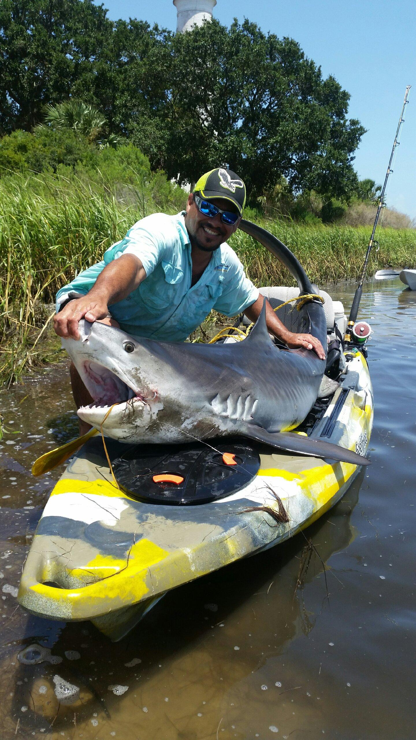 Fishing kayak is a light vessel with high transverse stability of the hull, allowing for safe fishing of large specimens of fish without risk of overturning.